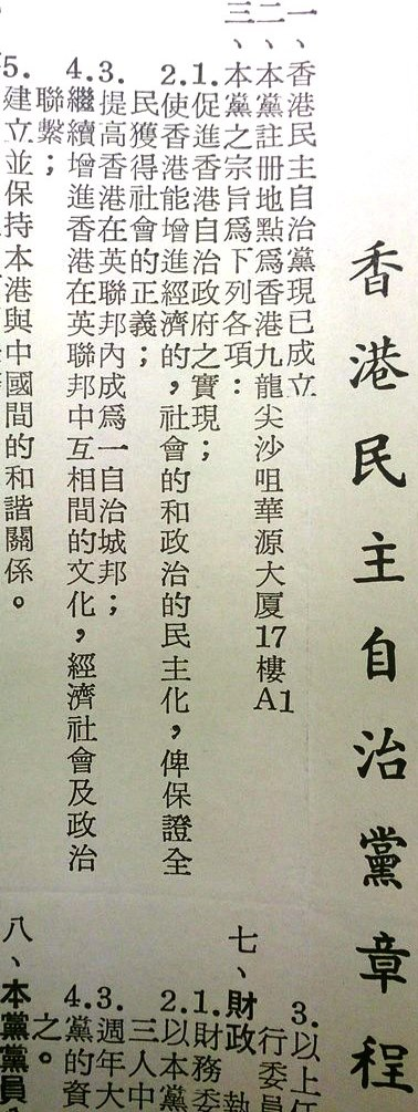 Goal of the Hong Kong Democratic Self-Government Party in 1963 or 1964